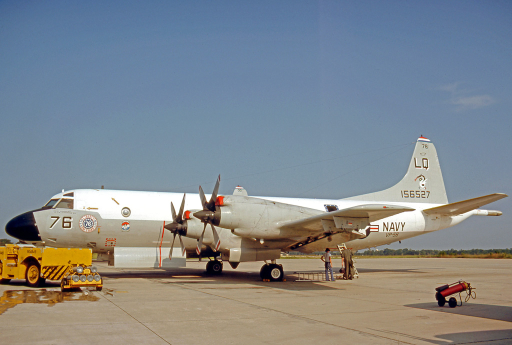 Lockheed P-3C Orion 156527 of Patron VP-56 "Dragons" at NAS Jacksonville Florida in 1976